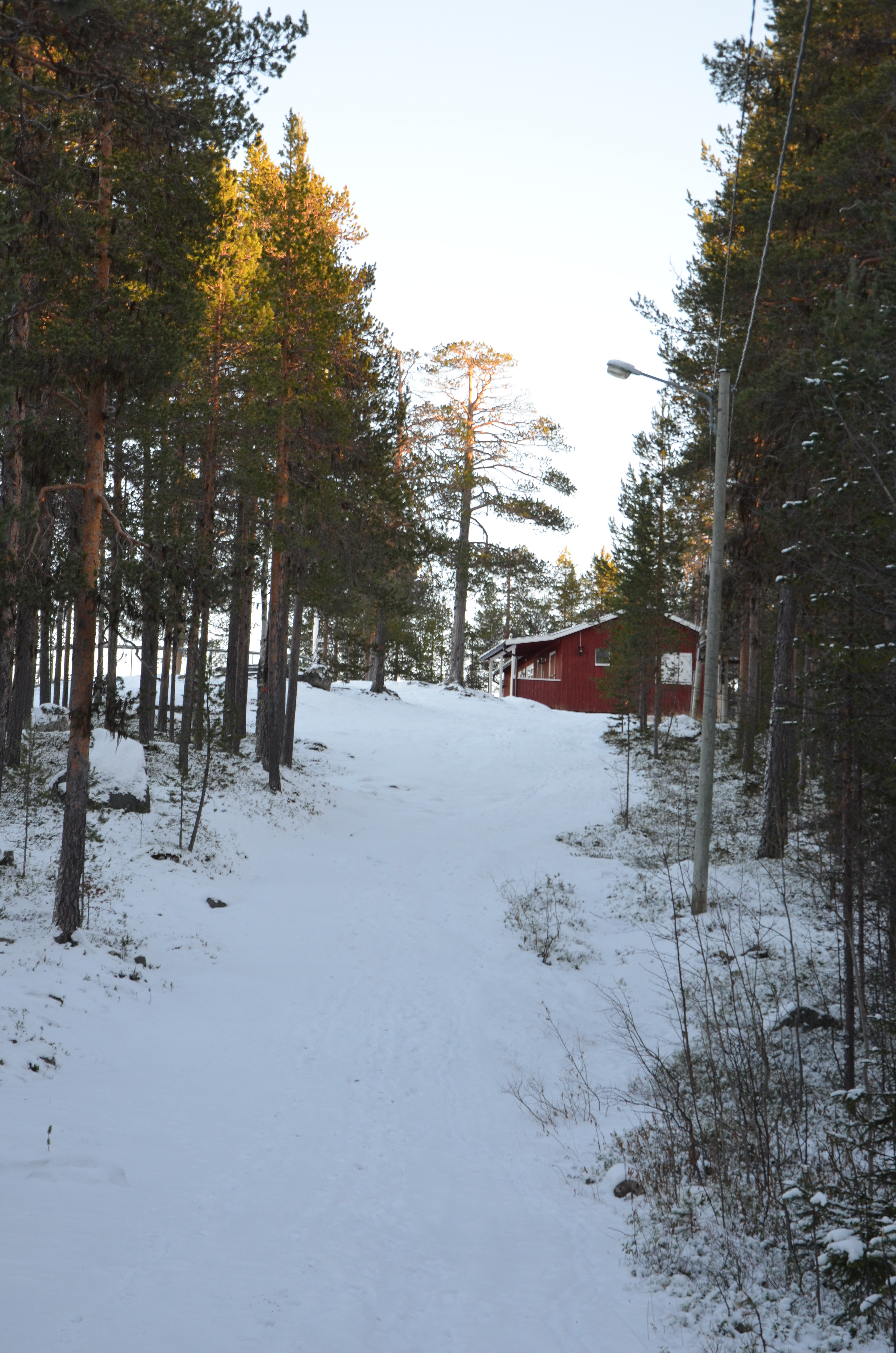 Stugan på Storknabben utanför Jokkmokk